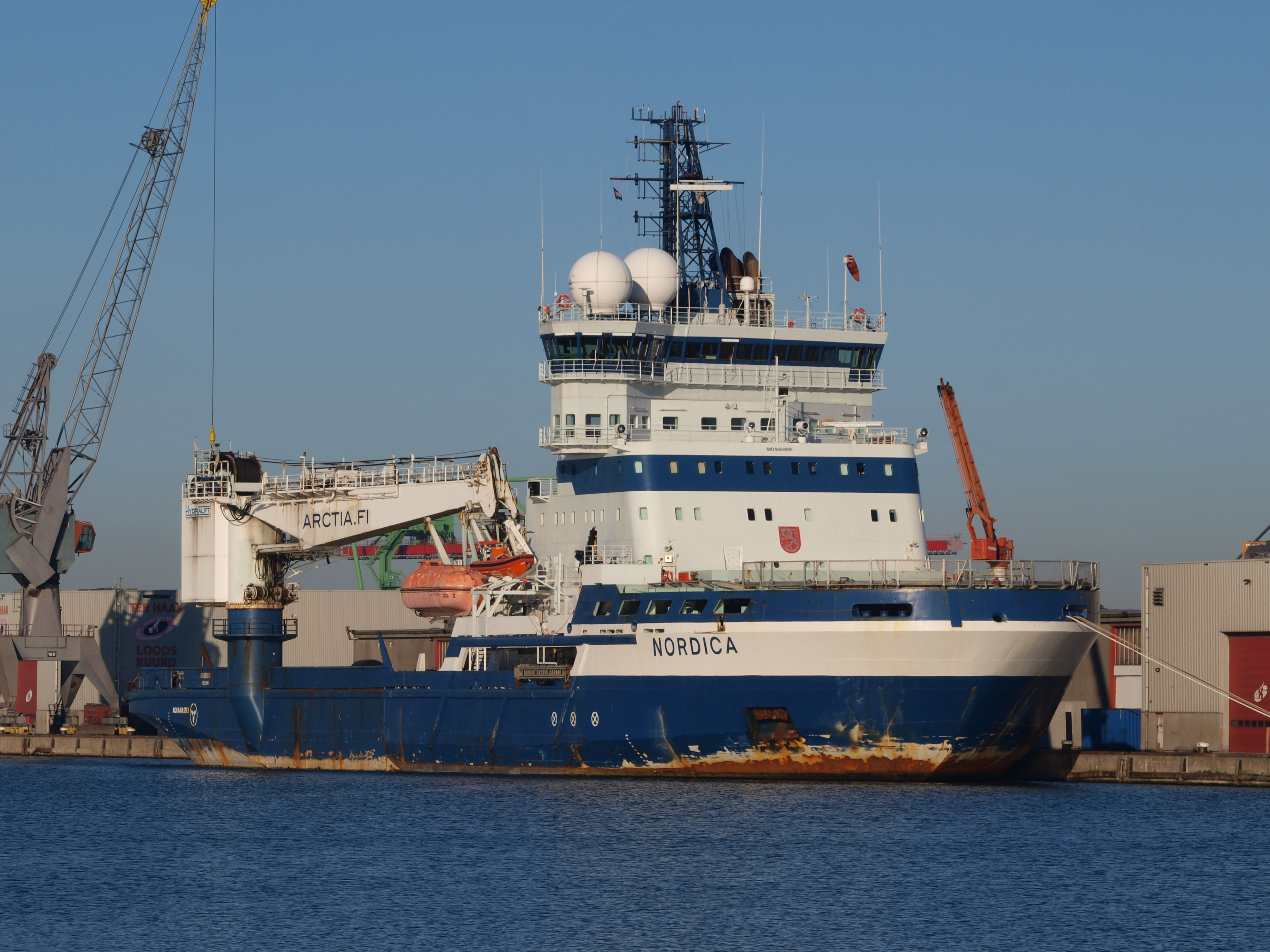 Photographed at the Port of Amsterdam